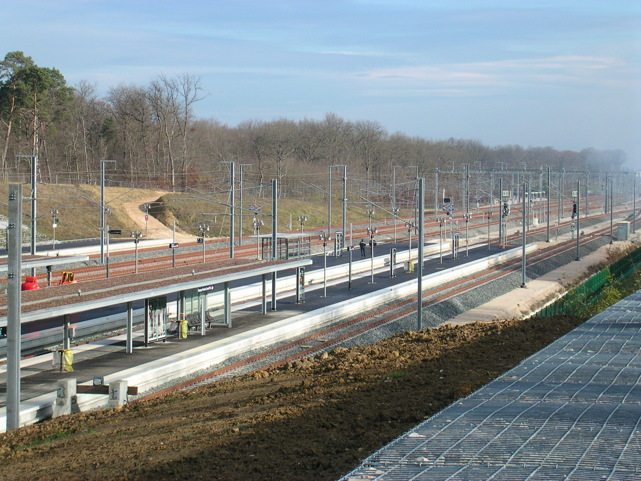 LGV Rhin-Rhône high-speed railway line toward Mulhouse, seen from the Besançon Franche-Comté TGV railway station during station's inaugural.